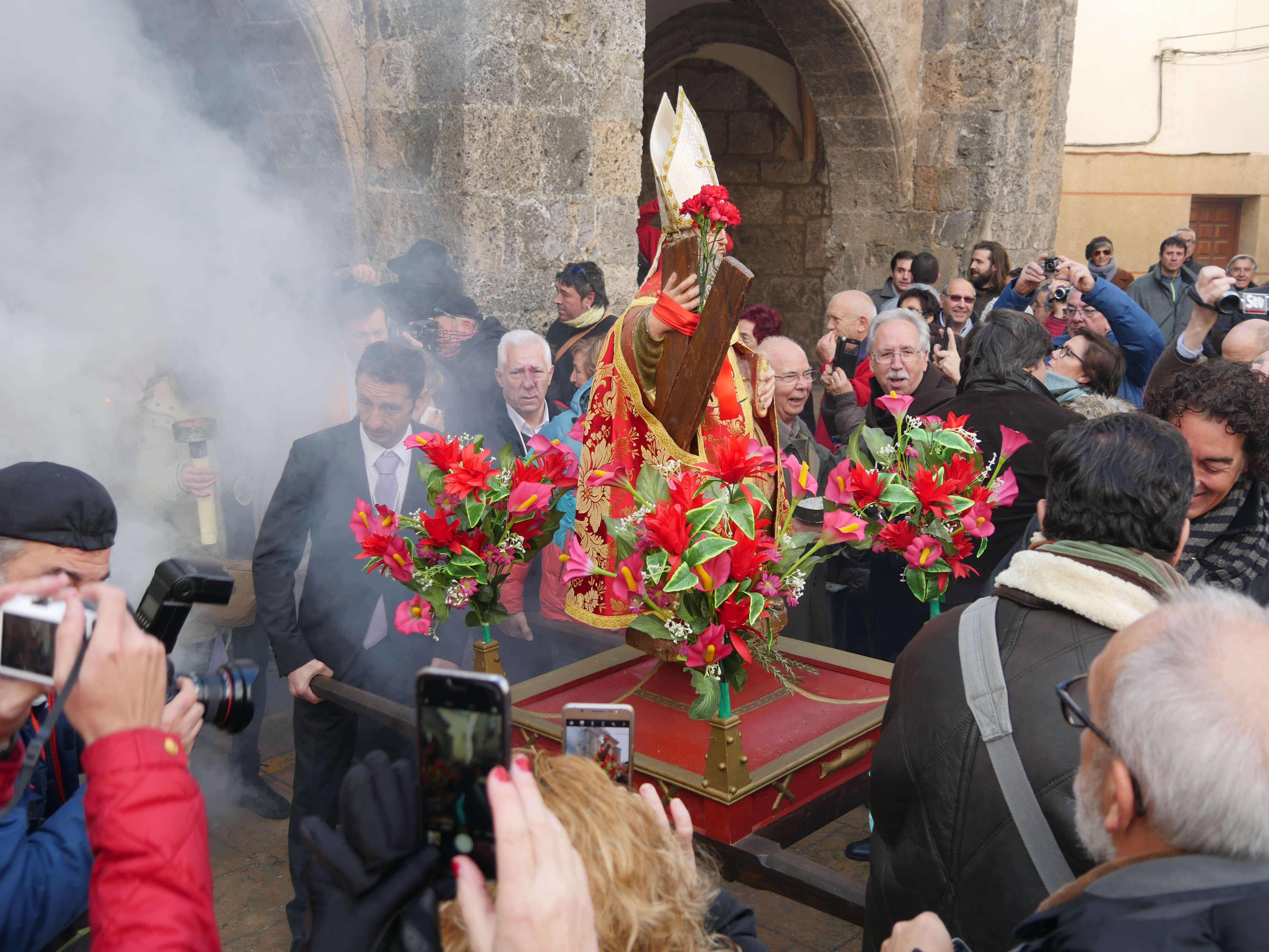 Paso with the sculpture of Saint Andrew just exited the Church of San Servando and San German through the smoke for the Procession of the smoke (Procesion del humo) 2017 in Arnedillo, La Rioja, Spain.